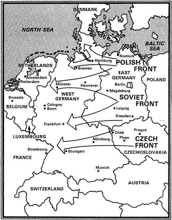 Soviet offensive plan to invade West Germany, assumed by US Army War College, Center of Land Warfare strategist and gaming specialist Colonel Richard C. Martin’s, who previously served with United States Army Europe.